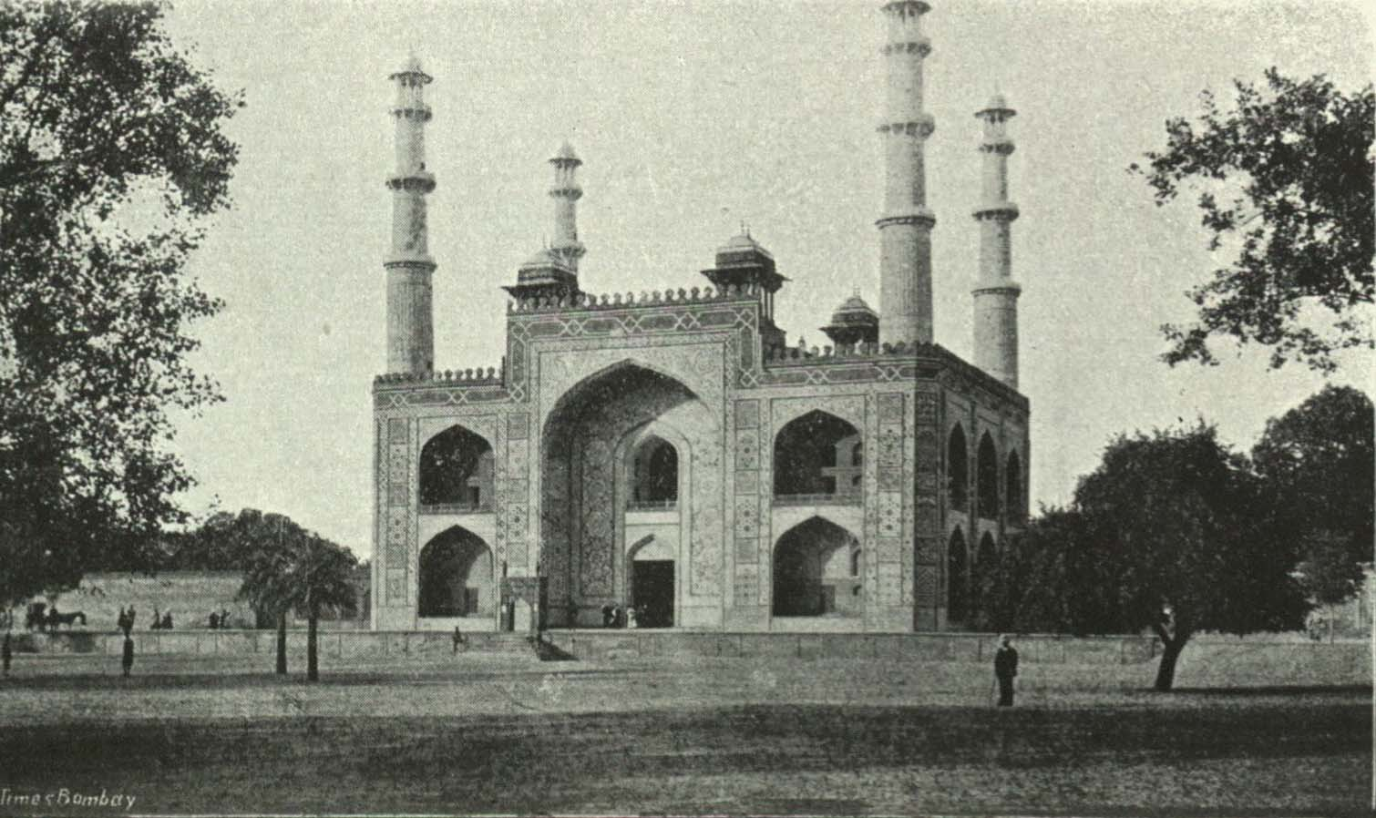 Situated 5 1/2 miles north-west of Agra Cantonment